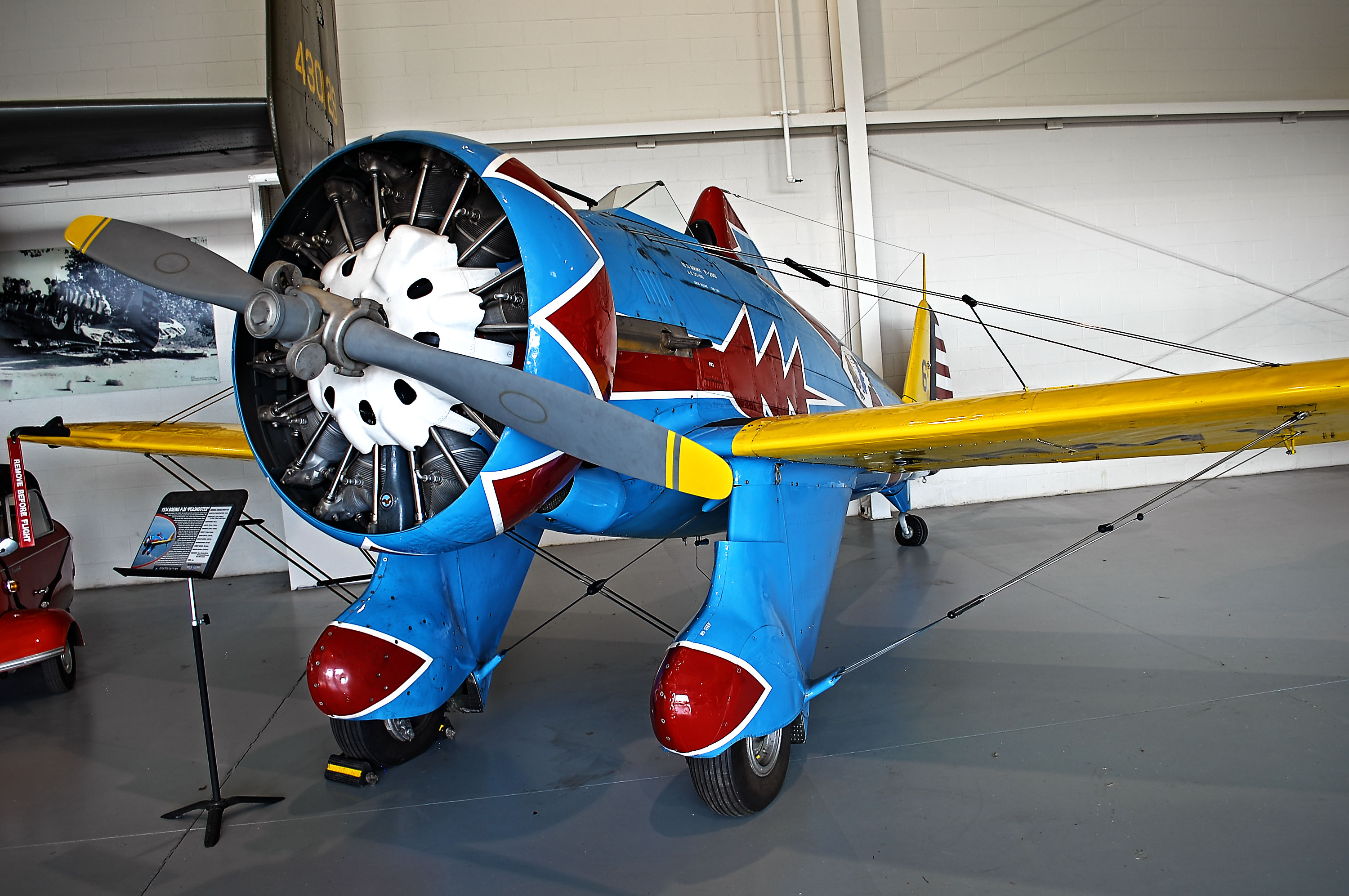 P-26 in markings of 94th Pursuit Squadron. At the Military Aviation Museum in Virginia Beach. Most of the planes are still flying, and gorgeous.